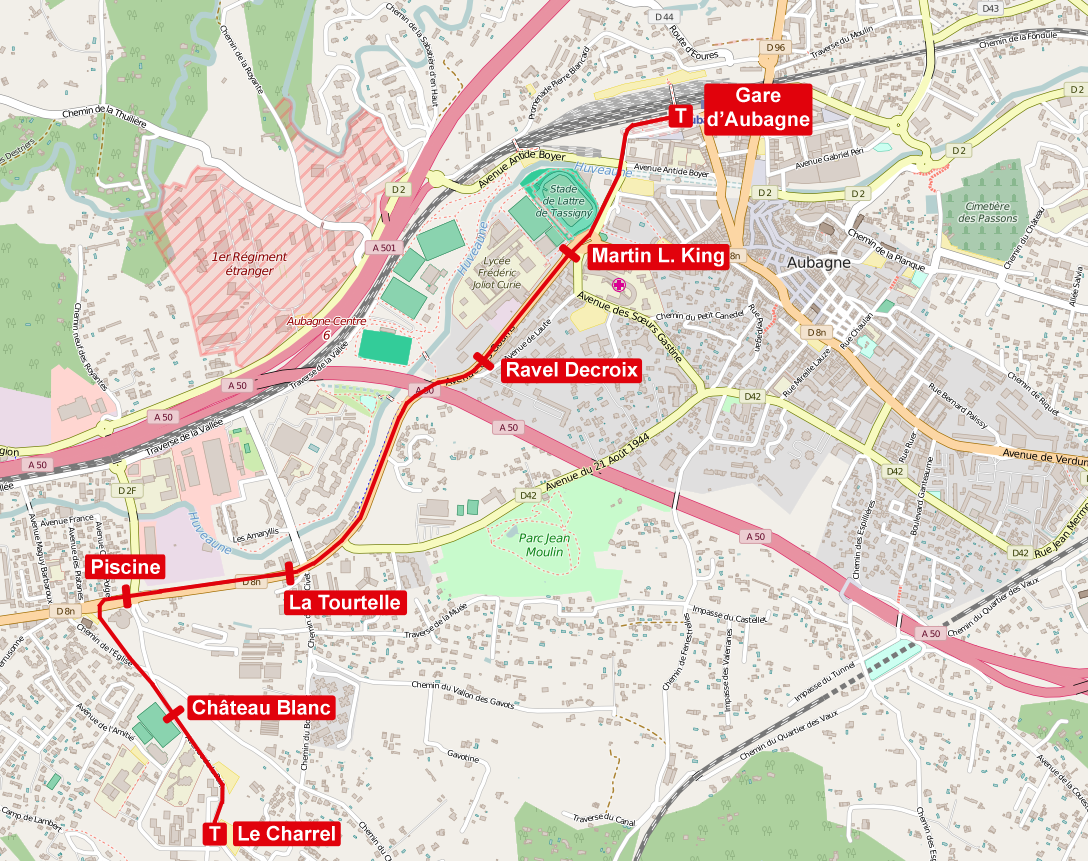 Map of Aubagne tramway